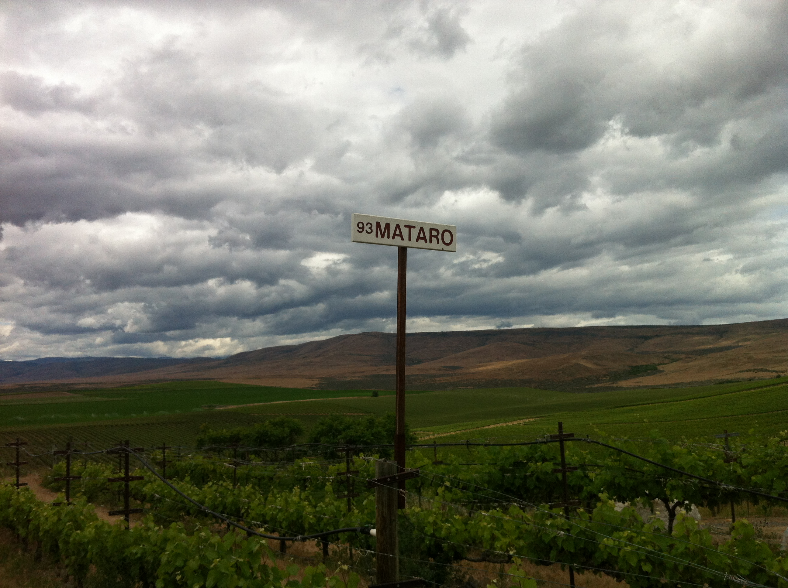 One of the first Mourvedre (listed as Mataro) plantings in Washington state at Red Willow Vineyard in the Yakima Valley AVA